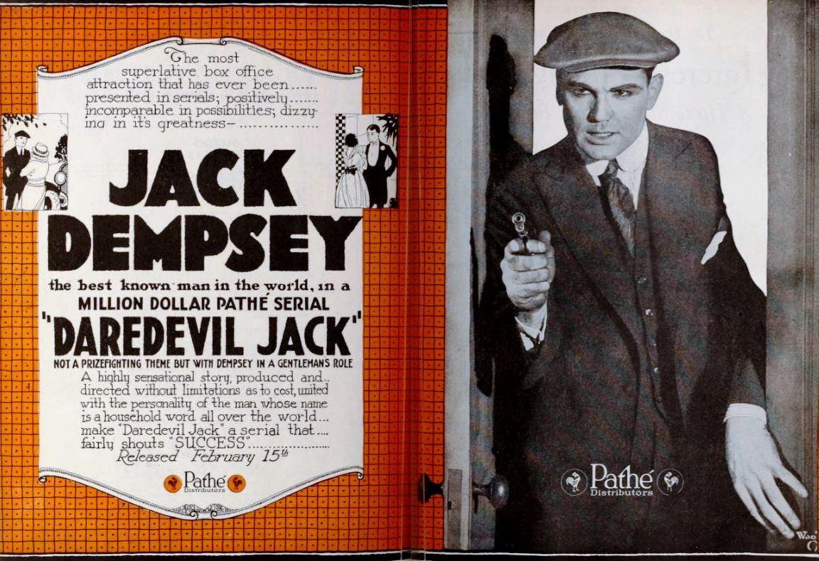 Advertisement for the American film serial Daredevil Jack (1920) with Jack Dempsey, on pages 20 and 21 of the January 24, 1920 Exhibitors Herald.